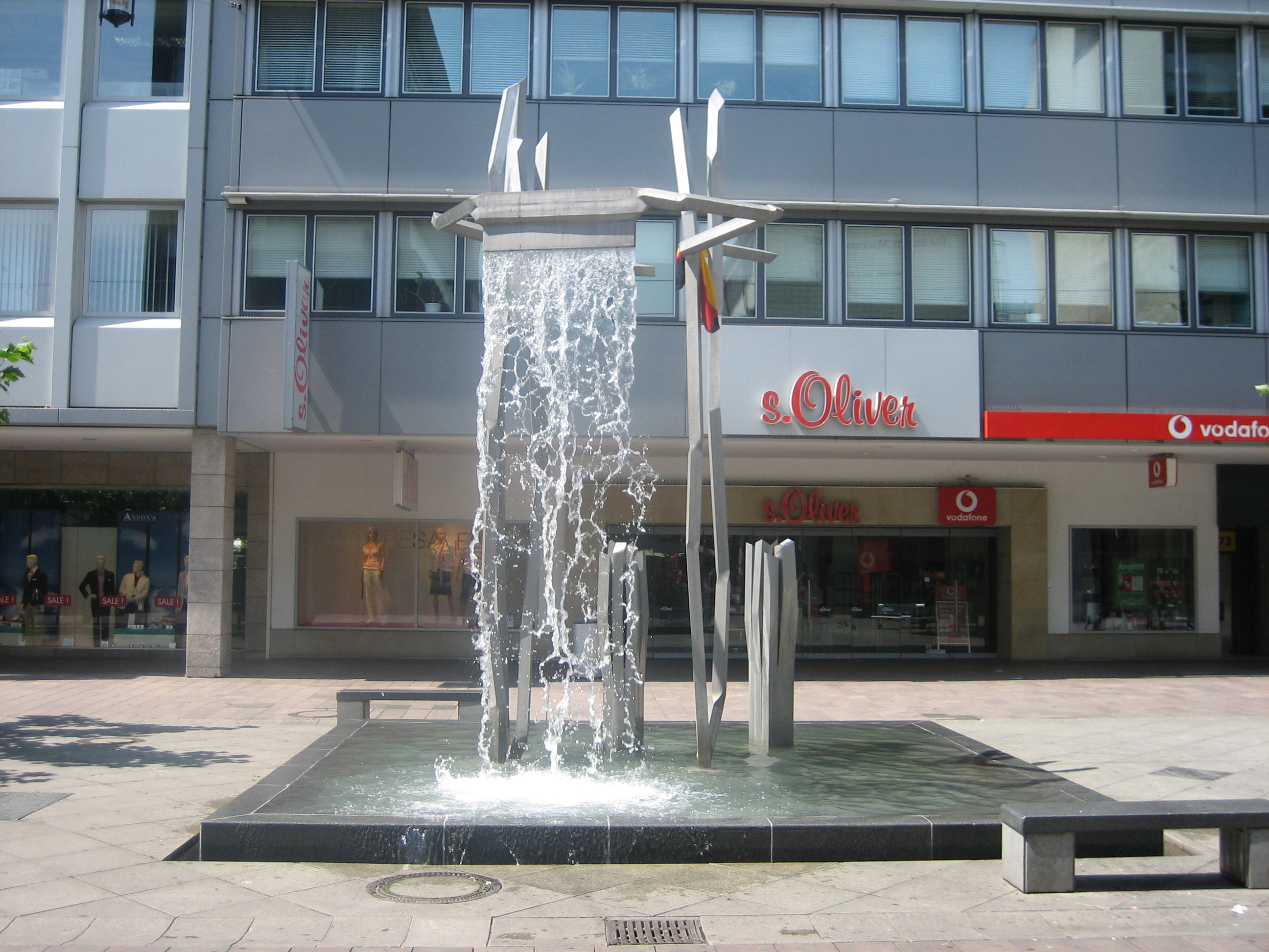 A fountain in city center, Saarbrücken.